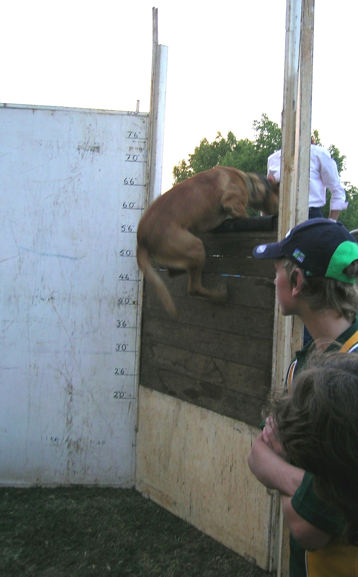 An Australian Kelpie competing in the dog jumping class, Walcha Show.